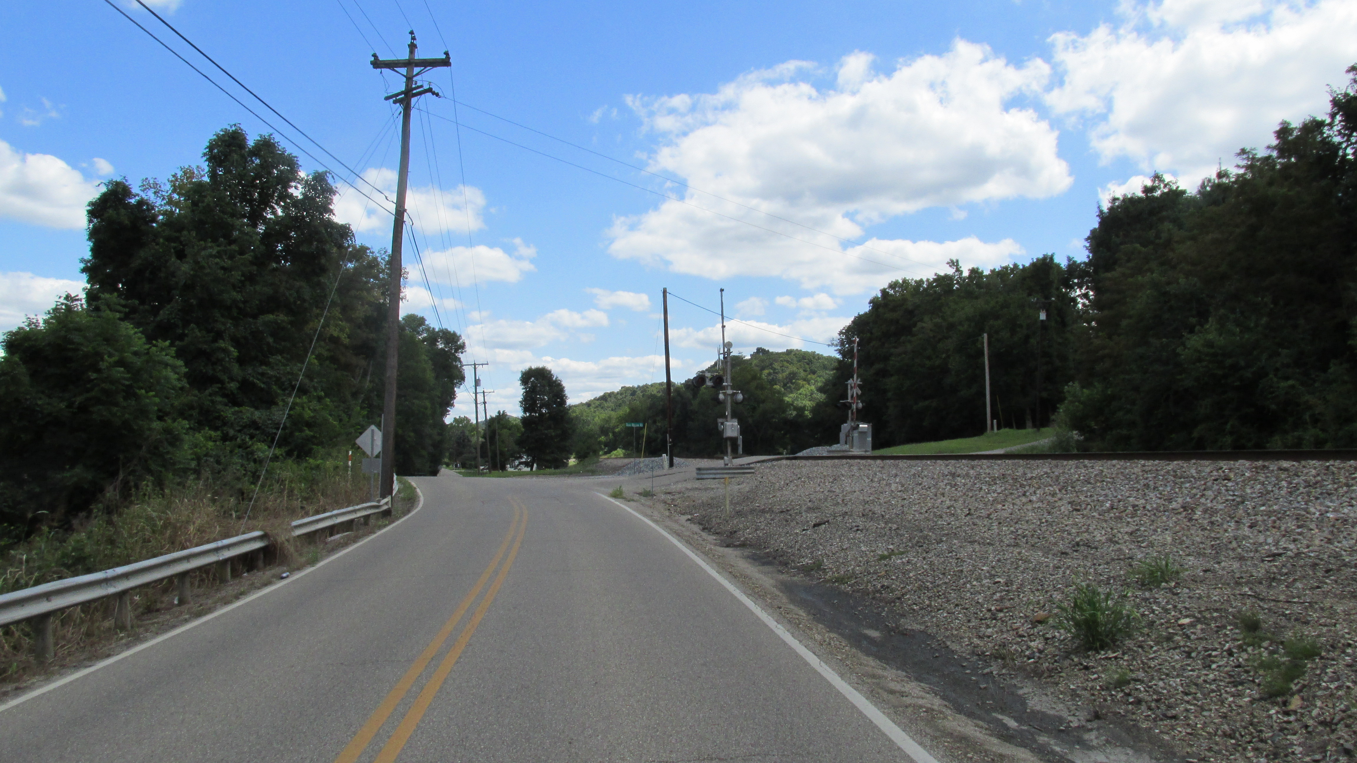 Junction of Three Locks Road and Toad Hollow Road in Deadman Crossing, Ohio.